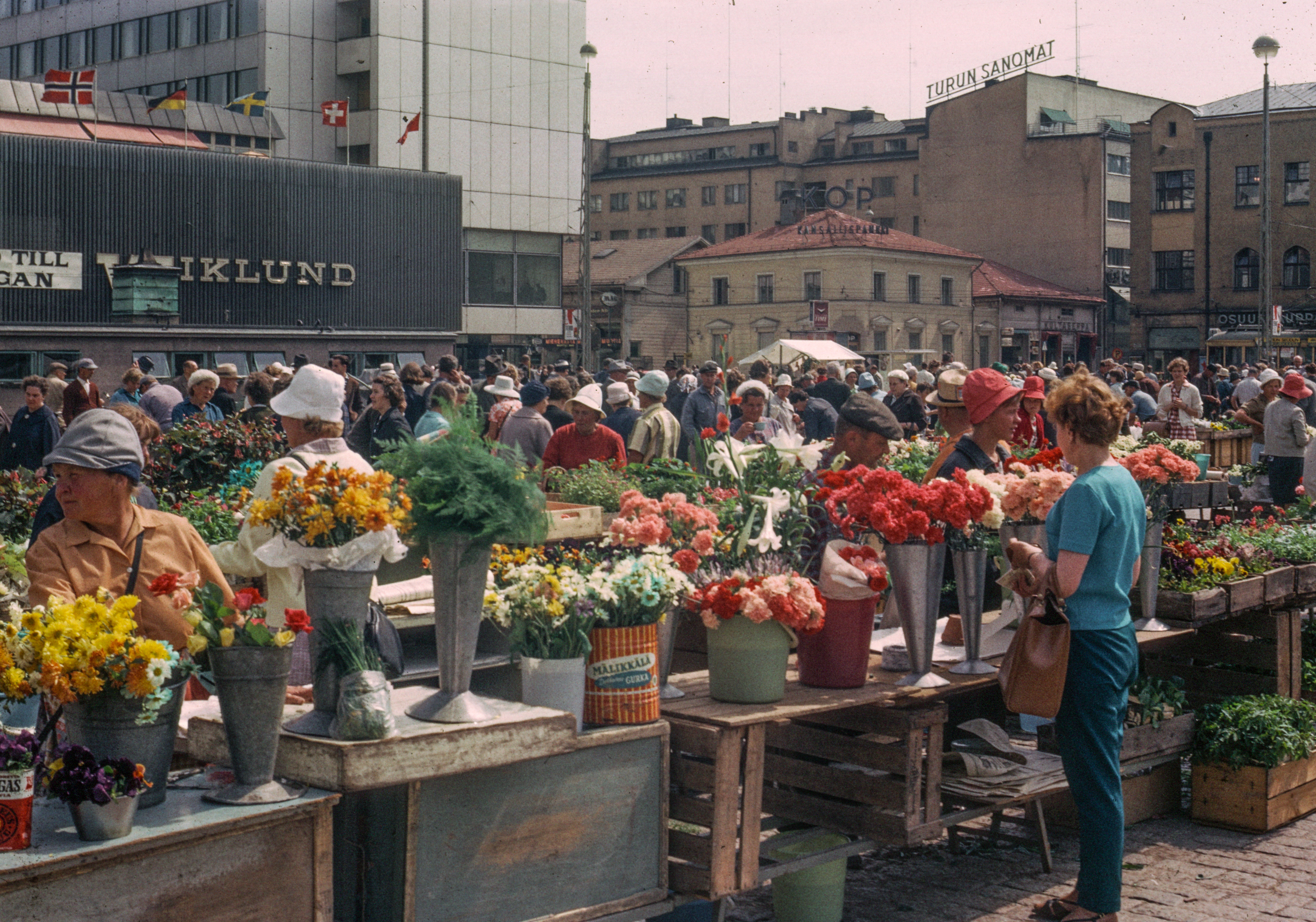 Open air market in Turku, the oldest city in Finland, in 1965.